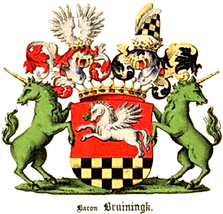 Coat of arms of Baron Bruiningk family.